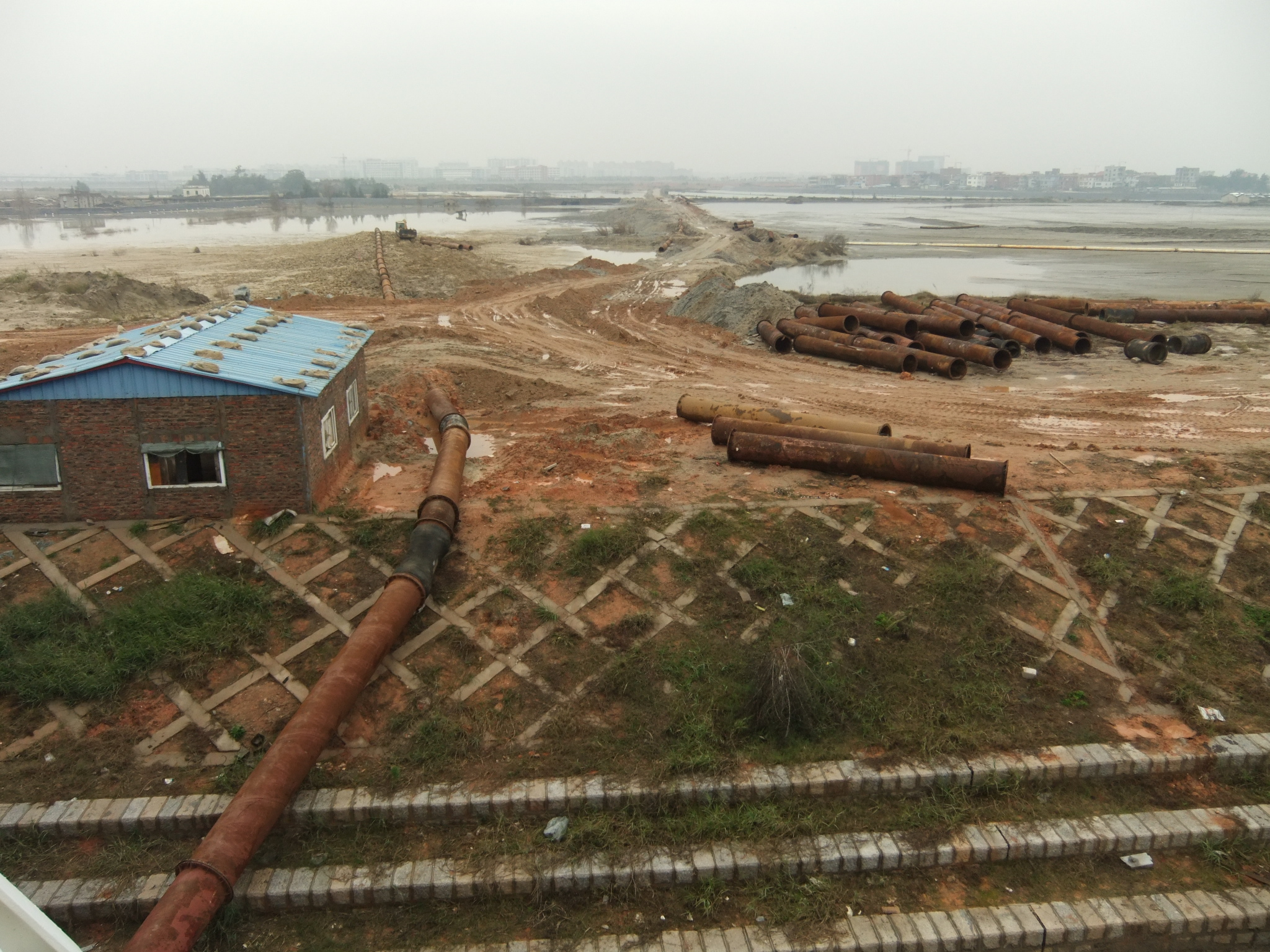 The area around the western end of the Tong'an Bridge, in Xiamen's Tong'an District. (The northwestern shore of Dongzui Bay, including Bingzhou Peninsula) It appears that land reclamation goes on full-speed here. the city creating solid land out a tidal plain!